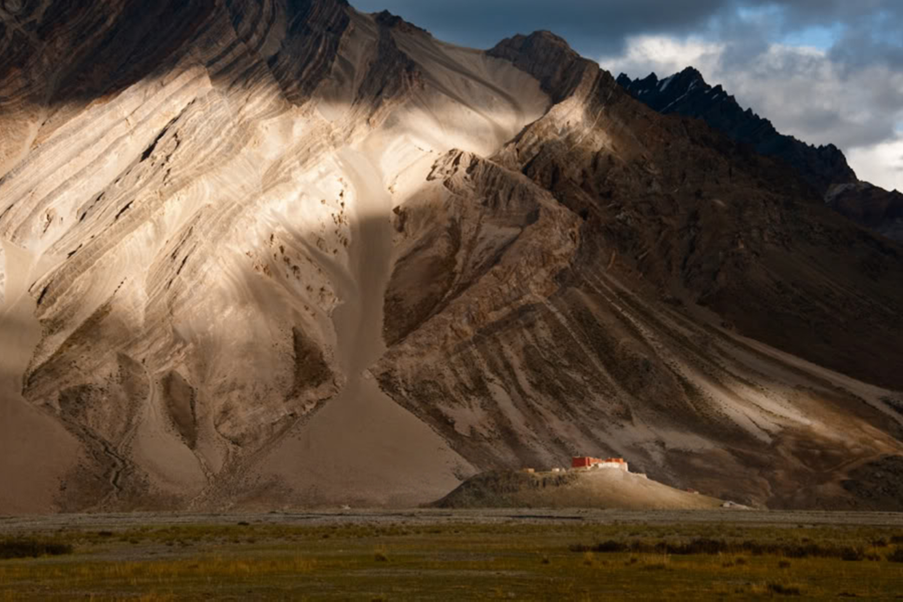 Rangdum Gompa